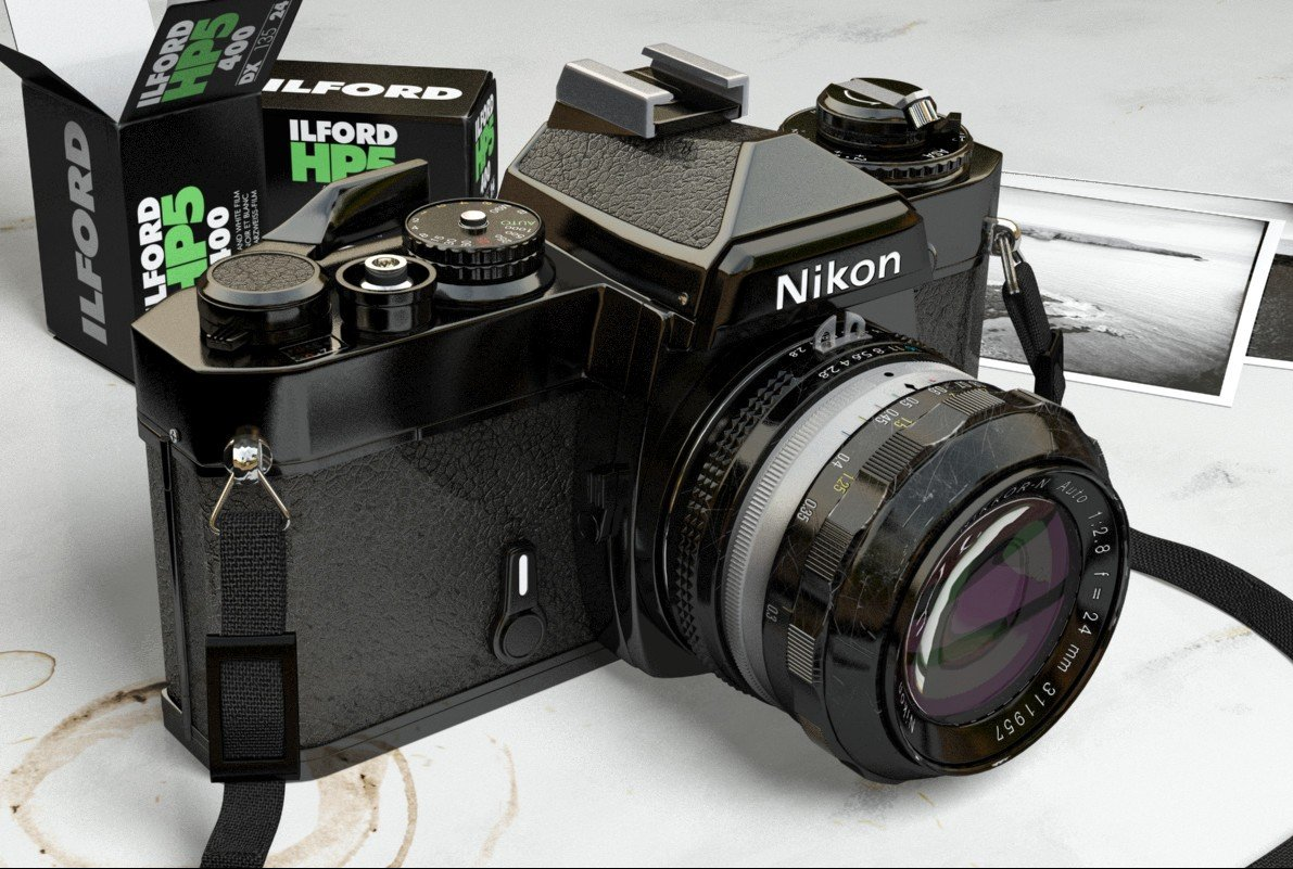 A Nikon 35 mm film SLR camera. A photorealistic image created with Yafray and Blender by Bert Buchholz.